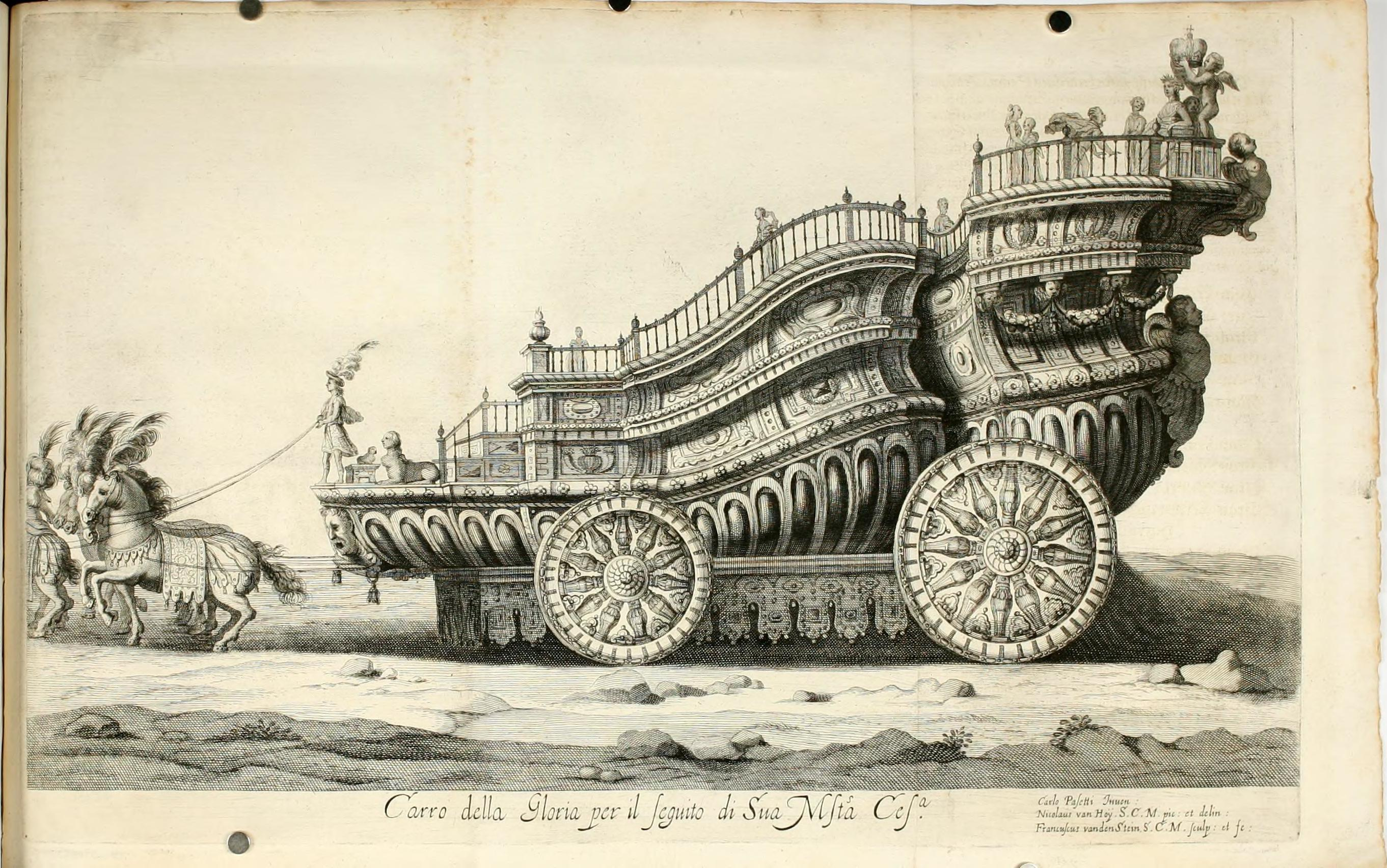 Title: (Publications relating to the wedding of Leopold I, Holy Roman Emperor, and Margarita Teresa, Infanta of Spain) Year: 1666 (1660s) Authors: Bertali, Antonio, 1605-1669 Bouttats, Gerard, b. ca. 1630 Carducci, Alessandro Fitzing, Johann Heinrich, b. 1628. Epithalamisches Emblema Fürst, Paul, ca. 1605-1666 Hoey, Nicolas de Hoffman, Johann, 17th cent Küsel, Melchior, 1626-1683 Lang, Moritz, 17th cent Lerch, Johann Martin, fl. 1659-1684 Luin, Urban, 17th cent Ossenbeeck, Jan van, 1624?-1674 Pasetti, Carlo, fl. 1639-1695 Sbarra, Francesco, 17th cent. Contesa dell' aria e dell' acqua. German Schmelzer, Johann Heinrich, ca. 1623-1680. Arie per il balletto à cavallo Steen, Franciscus van der, 1625-1672 Subjects: Leopold I, Holy Roman Emperor, 1640-1705 Margarita Teresa, Infanta of Spain, Empress, consort of Leopold I, Holy Roman Emperor, 1651-1673 Royal weddings Horse ballet Horse processions Tournaments Fireworks Publisher